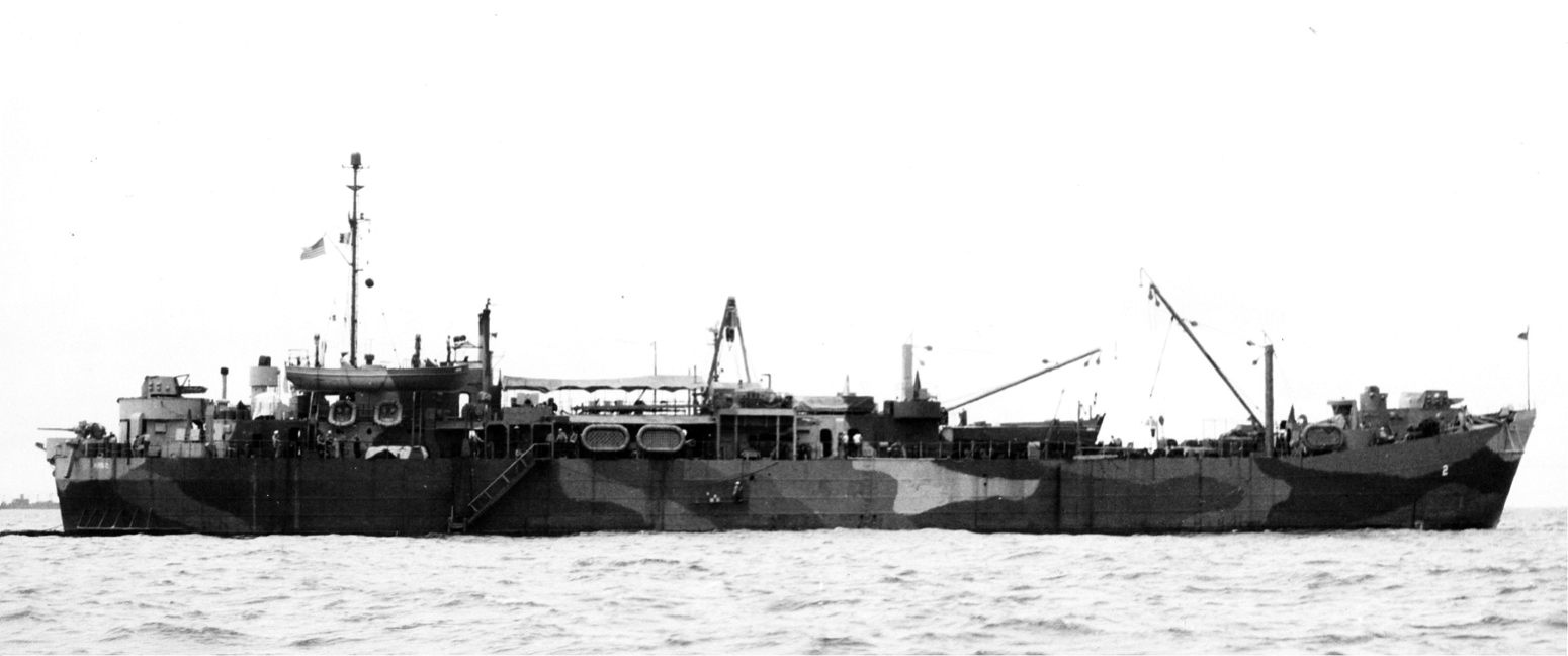 USS Oceanus (ARB-2) at anchor, date and place unknown. US Navy photo.